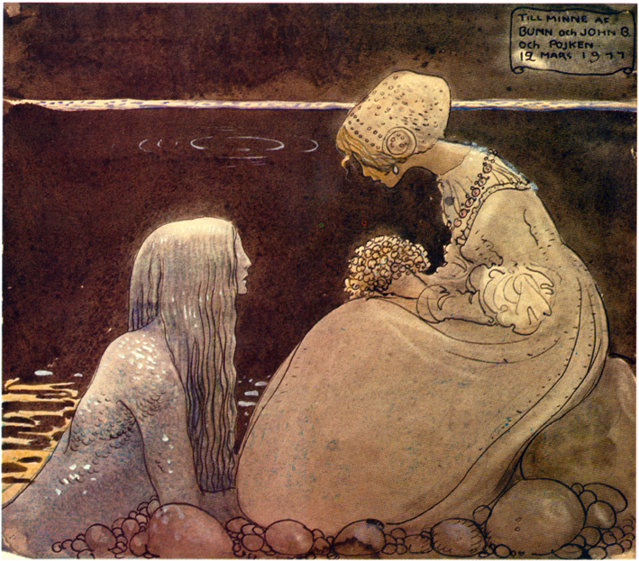 Illustration for "Agneta och Sjökungen" (Agneta and Sjökungen) by Helena Nyblom in "Bland tomtar och troll" (Among gnomes and trolls), 1910. See also Image:Sjoekungen 2 by John Bauer 1911.jpg and Image:Sjoekungens drottning by John Bauer 1911.jpg from the same story.